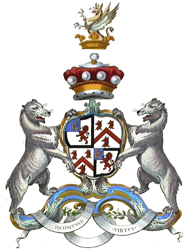 Source: Segar's Baronagium Genealogicum, 1764